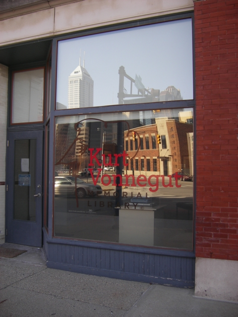 Exterior shot of the Kurt Vonnegut Memorial Library. Indianapolis, IN. Photograph by sbugher